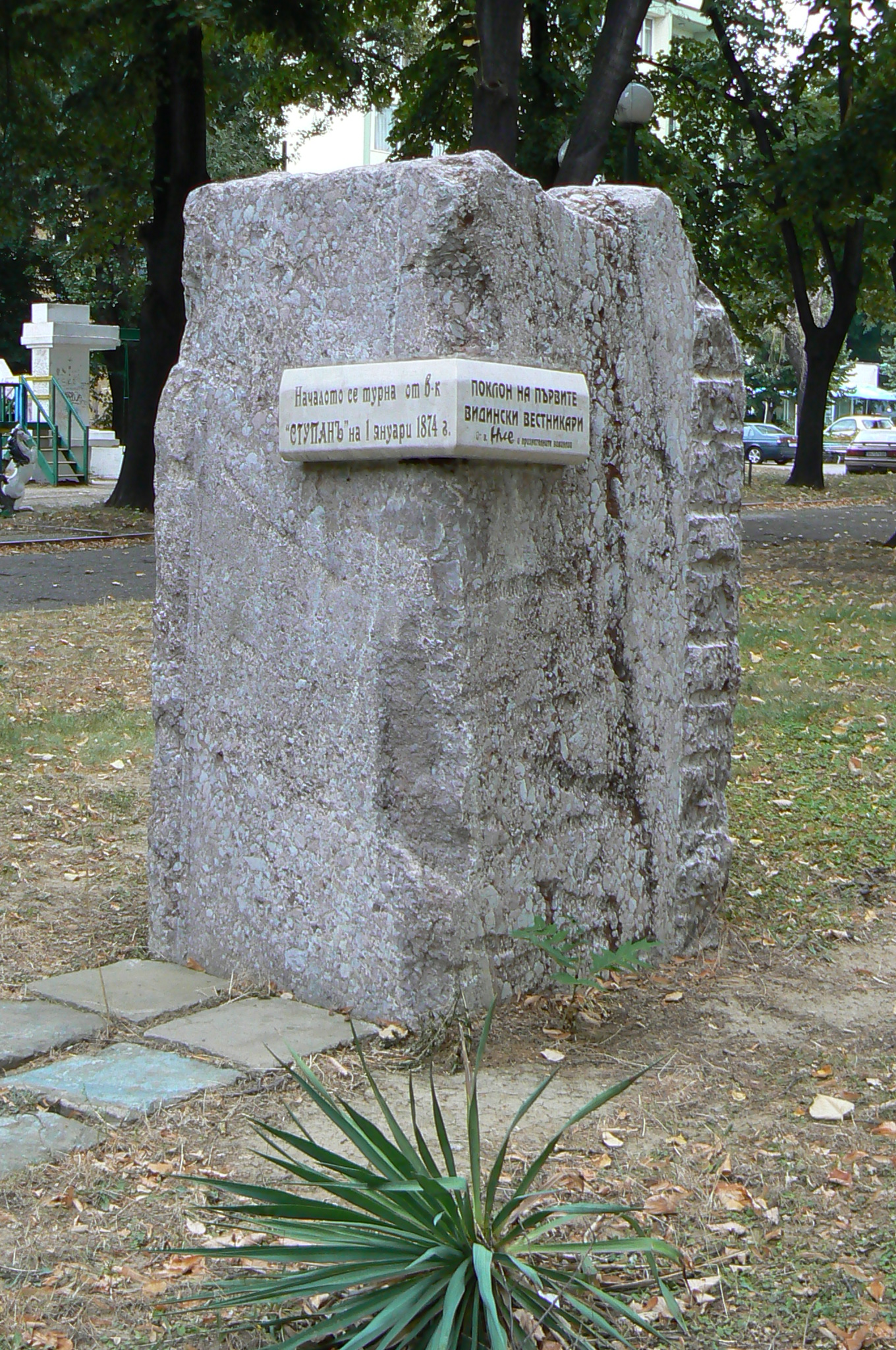 Monument to the first journalists of town Vidin, who published newspaper "Stupan" ("Farmer") in 1874-1876 year. Placed in front of Stambol Kapia, Vidin, Bulgaria